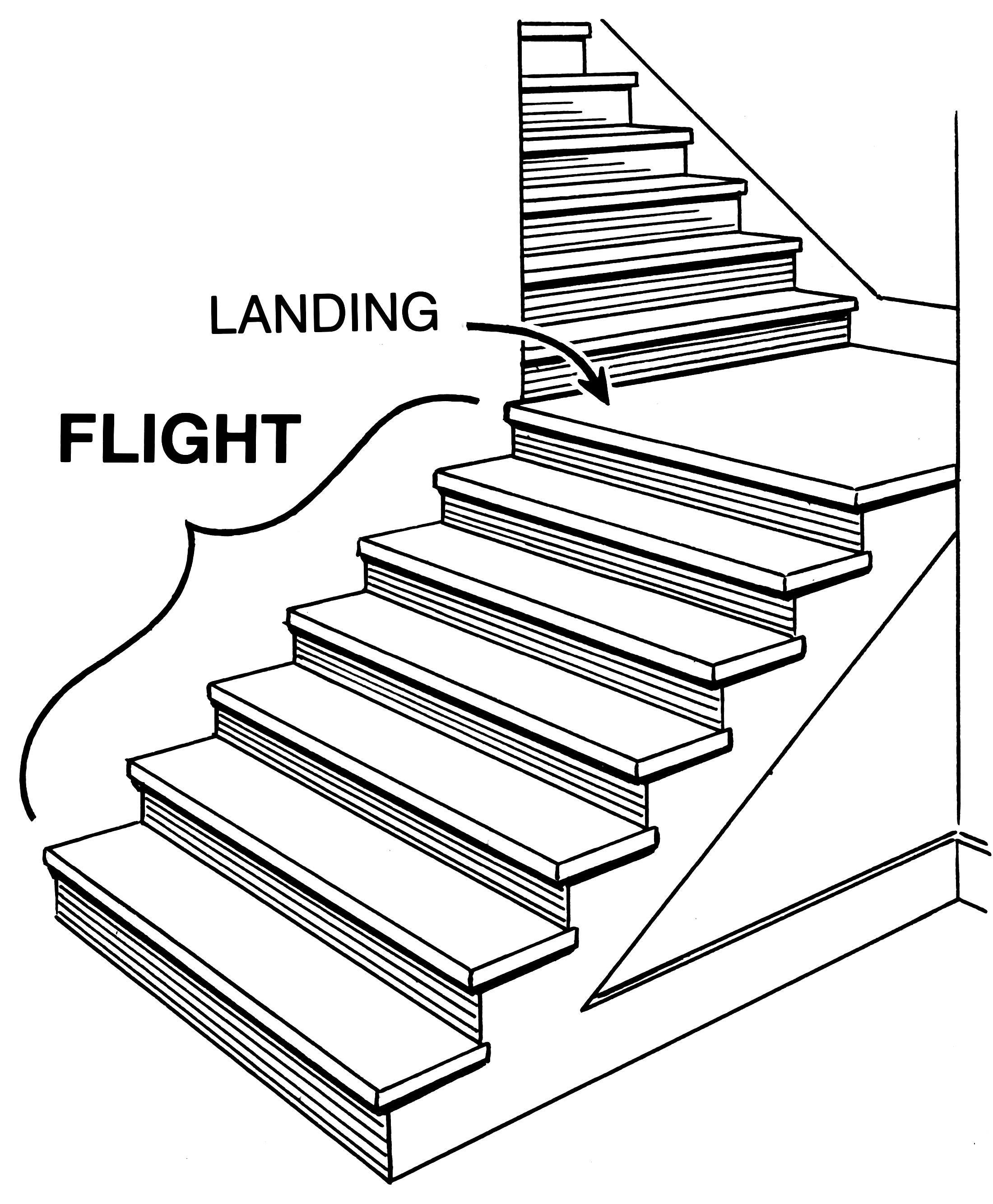 Flight steps